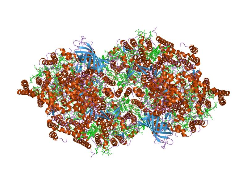 Cartoon representation of the molecular structure of protein registered with 2axt code.